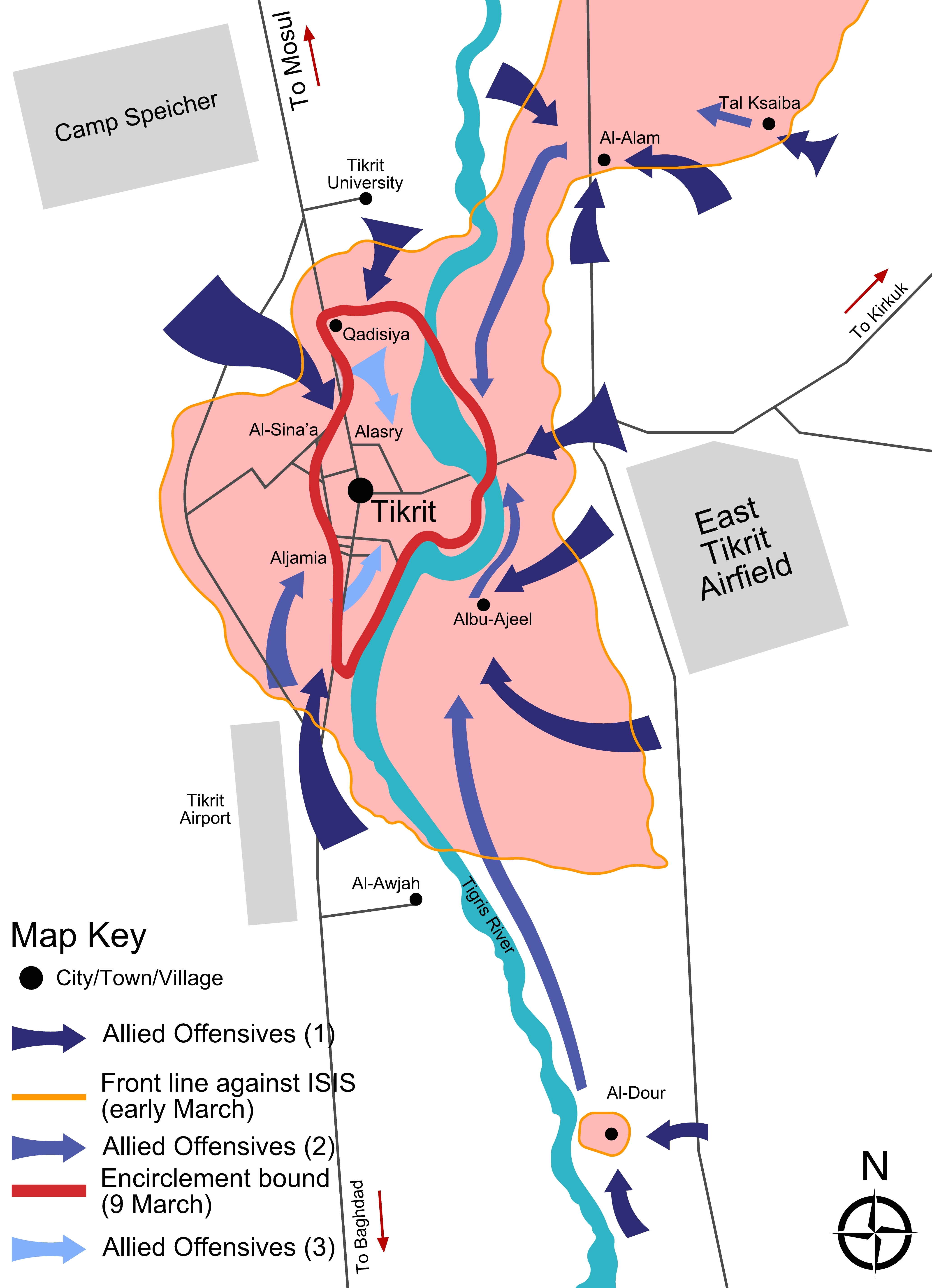 The map of The Second Battle of Tikrit redone and traced in Google Sketchup, based on "File:The Second Battle of Tikrit (2015).jpeg" by Parsa1993.